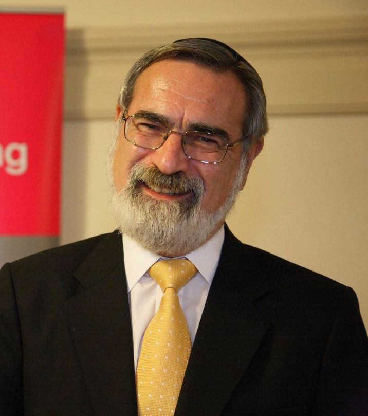 Sir Jonathan Sacks, Chief Rabbi of the UK, at National Poverty Hearing 2006 at Westminster, London.